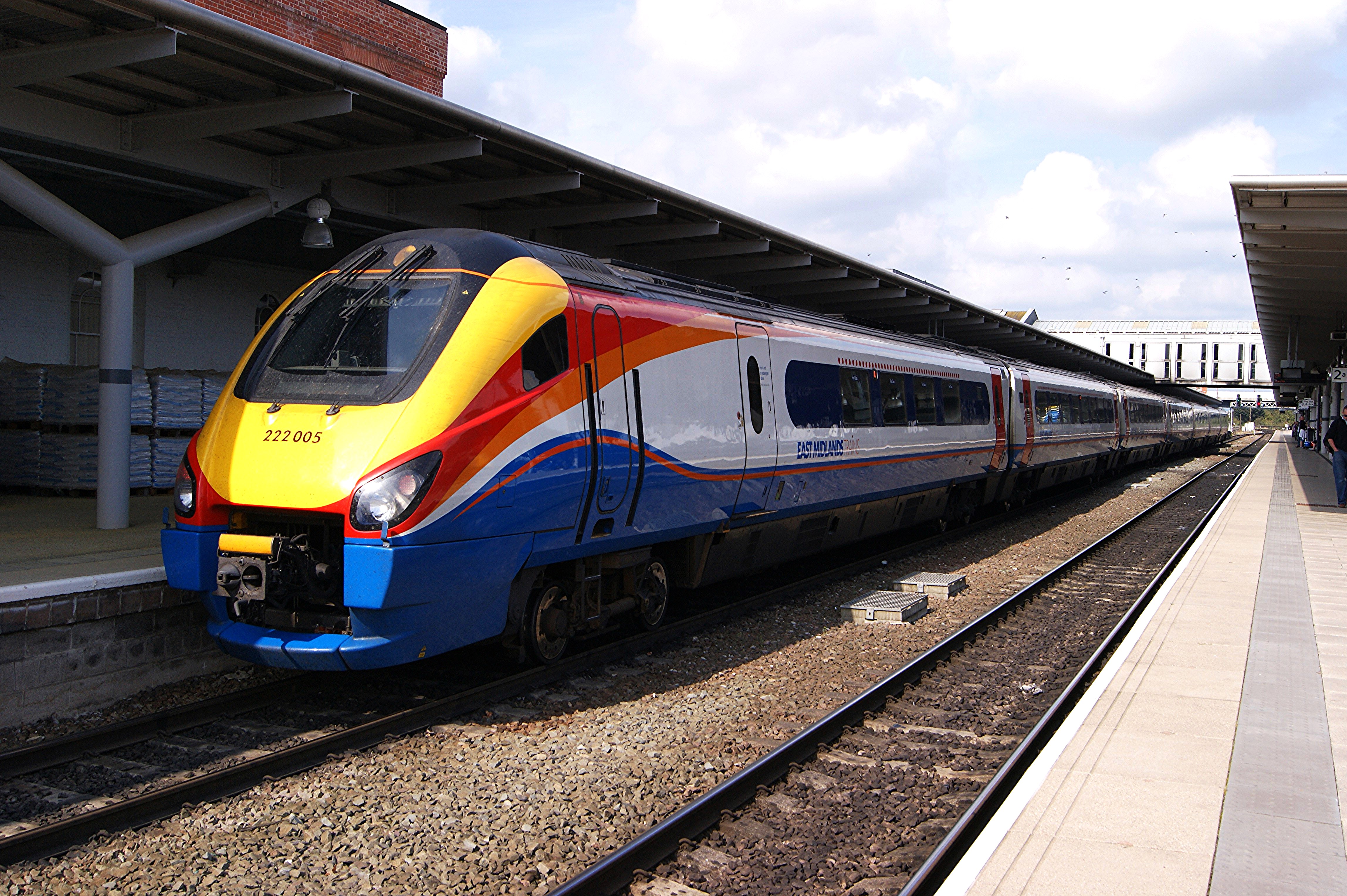 Bombardier (Brugge) Class 222/0 'Meridian' 7-car dmu No.222 005 of East Midlands Trains in standard Stagecoach livery at Derby on a St. Pancras service, 13 September 2014.